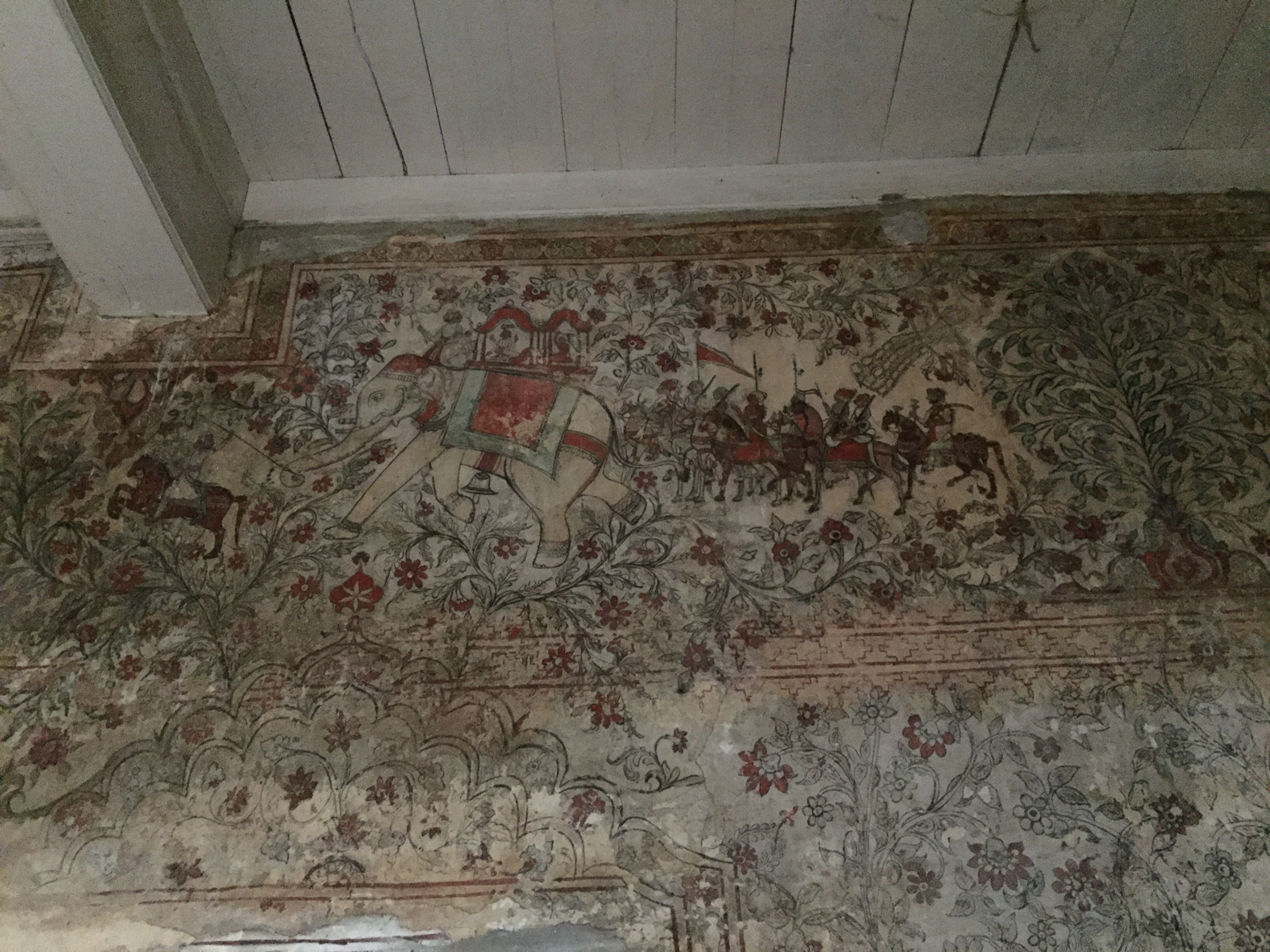 MacMurdo's Bungalow Wall Painting